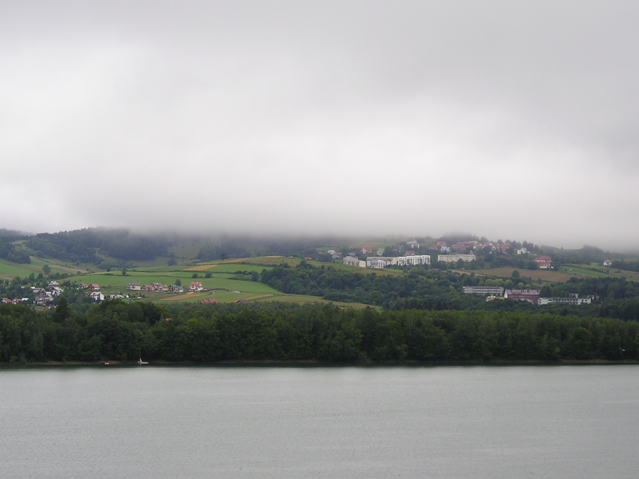 Fog over the Solina Lake